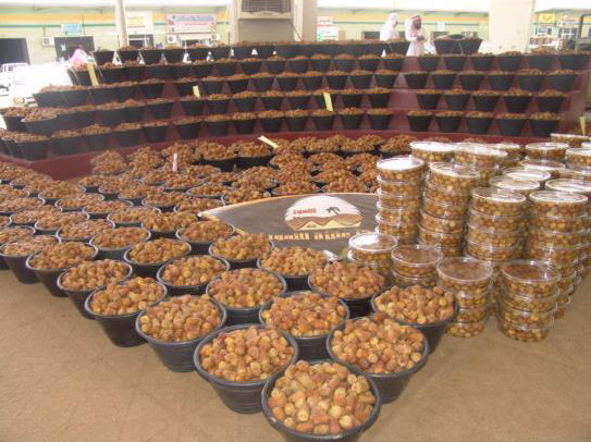 Unaizah International Dates Festival 08 taking place at Unaizah, Saudi Arabia.